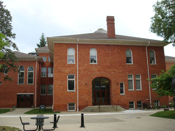 Welch Hall at Eastern Michigan University in Ypsilanti Michigan